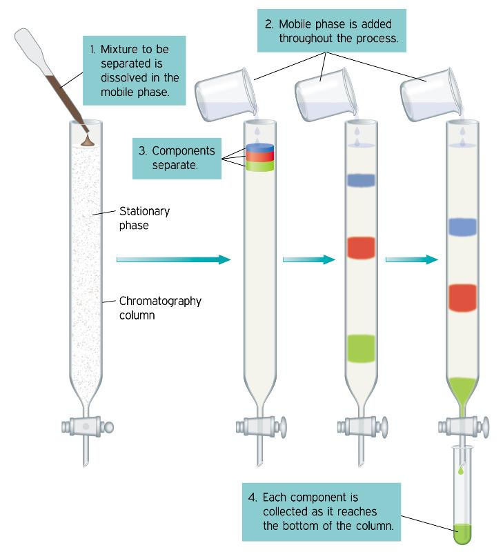 Kromatografia